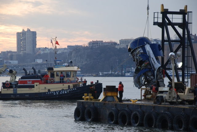 Weeks Marine Inc. lifts the missing engine from the downed US Airways Flight 1549 from the Hudson River. Army Corps of Engineers boats were there at the scene as the engine was being lifted out of the water.The engine was seperated from the plane after it had crashed into the Hudson River on Thursday, January 15. The engine was found approximately 60 ft deep in the water.